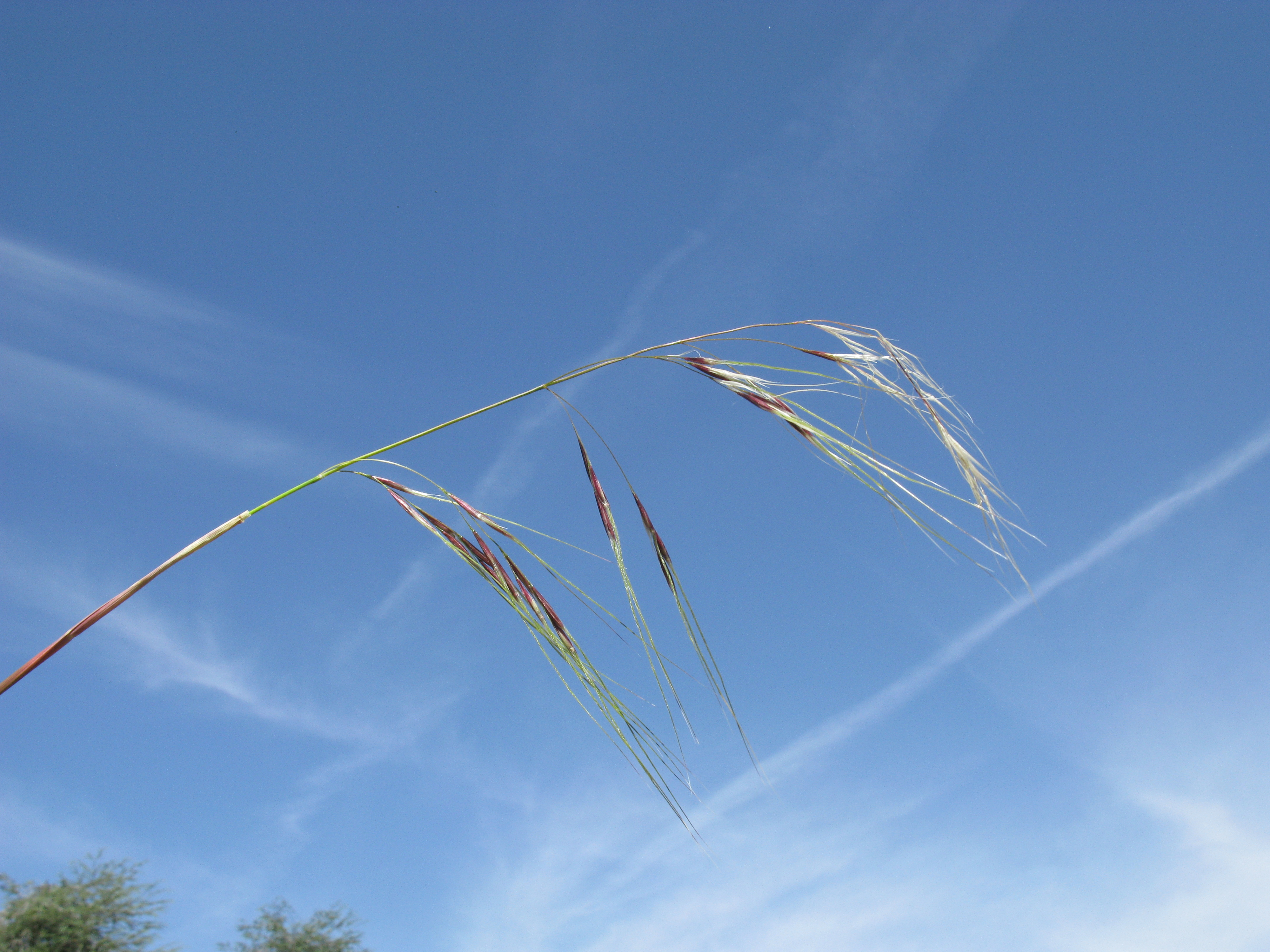 Introduced, cool-season, perennial, tufted grass to 80 cm tall. Stem nodes are covered in short hairs. Leaves are to 5 mm wide, with a strongly ribbed and hairy upper surface. Flowerheads are contracted to loosely open panicles to 40 cm long. Spikelets are 1-flowered and have 2 purplish glumes. Lemmas (6-10 mm long) are hairy in the lower half and have a ring of tissue (corona) at the base of the 4-9 cm long, bent and twisted awn. Spikelets are also formed at the base of the plant and at nodes along the flowering stems. Flowers in spring and early summer. A native of South America, it is found on roadsides, in native and sown pastures, and is one of the main lawn grasses in Canberra. Occurs on most soil types, but prefers more fertile soils. A Weed of National Significance, it is highly invasive and produces large persistent seed banks. Its seeds injure stock and downgrade wool, skins and hides. A palatable and reasonable quality feed in winter, but is low quality when flowering. Stocking rates can be reduced by up to 50% during summer. Managed with a combination of methods: fodder and stock hygiene, grazing management, physical removal, pasture sowing and registered herbicides.